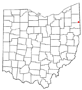 Reference from Google Earth by olim2006